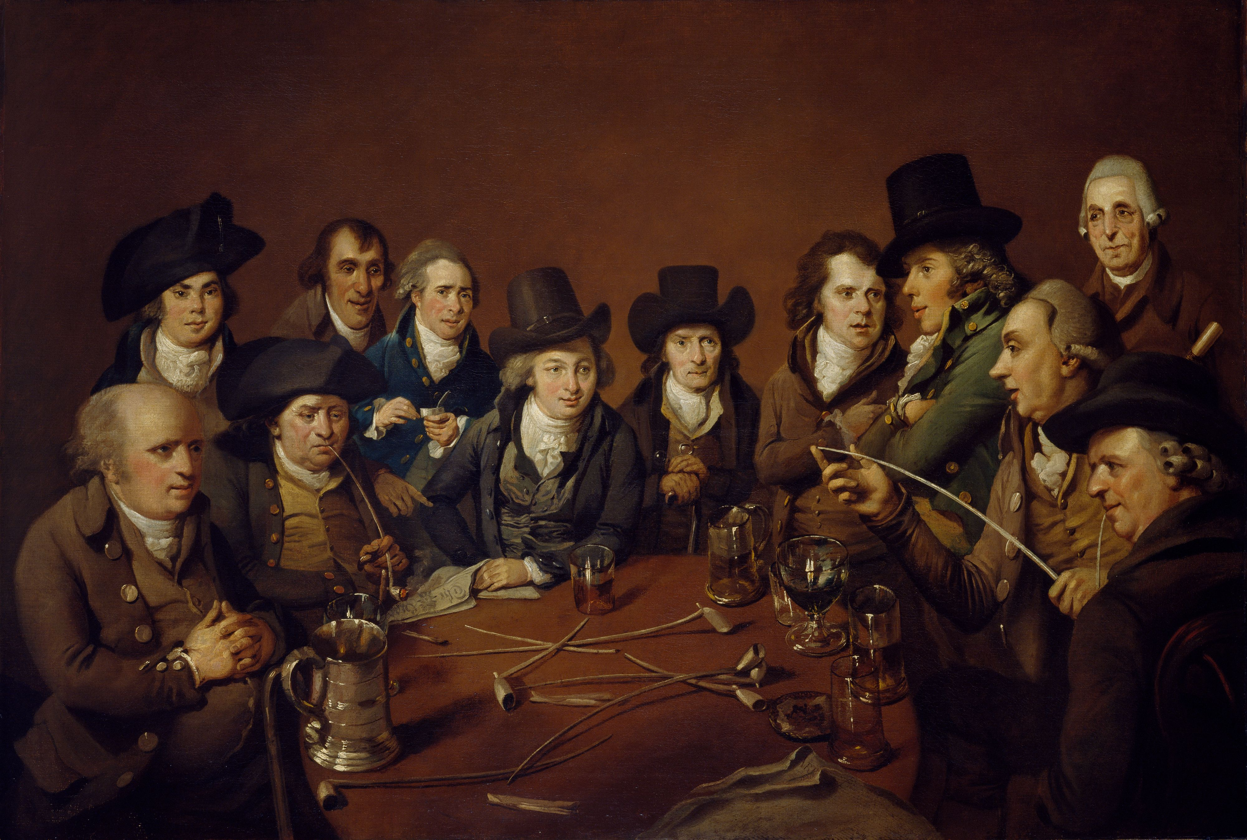 Johannes Eckstein, John Freeth and his Circle or Birmingham Men of the Last Century (1792)